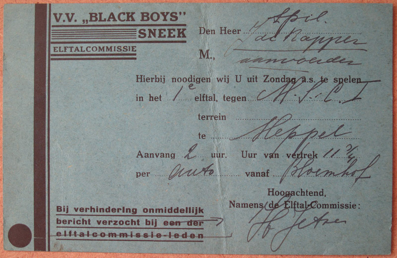 VV Black Boys wedstrijd oproepkaart voor Jan de Rapper, rond 1931